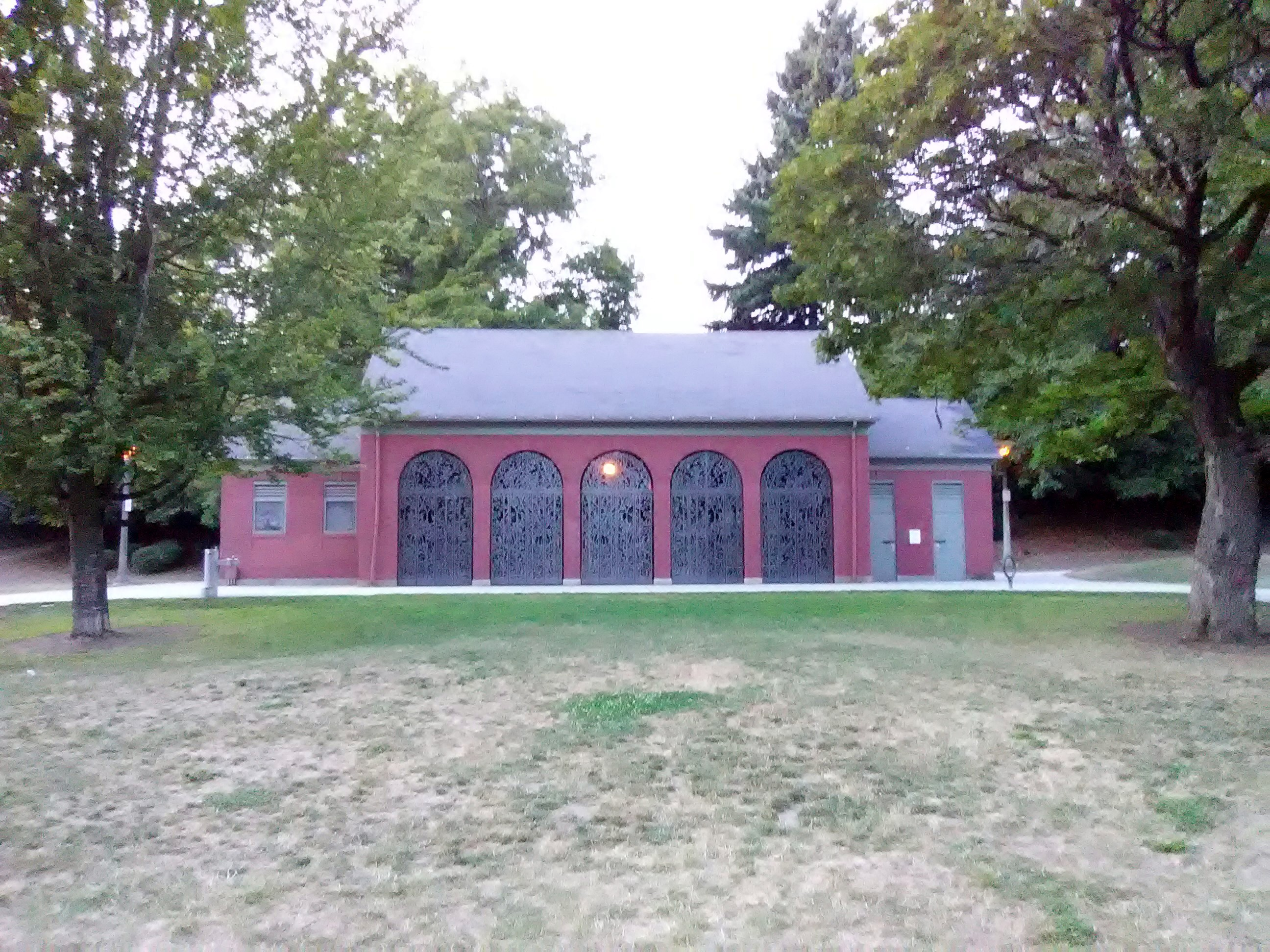 Pavilion located in Colonel Summers Park facing SE Taylor Street